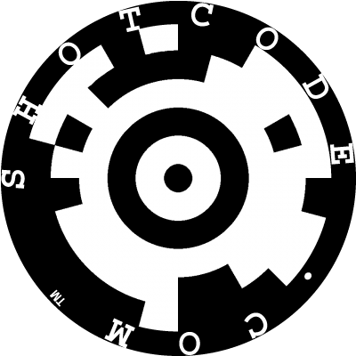 Download the mobile reader at , point your cameraphone here and ... see where it takes you